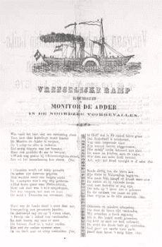 Rijm op de Adder